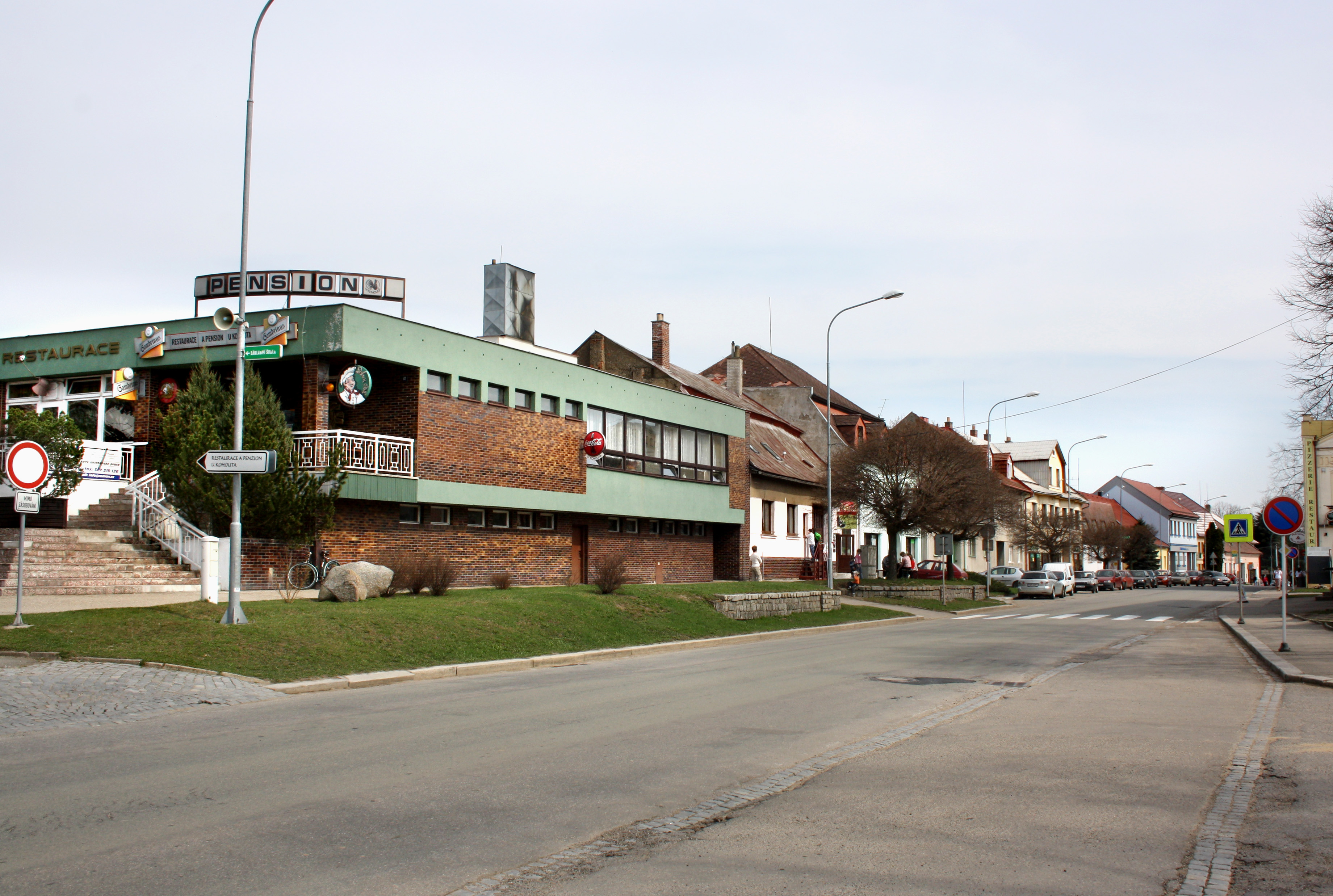 Restaurant in Měřín